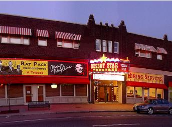 Iris Theatre, know known as Desert Star Theatre